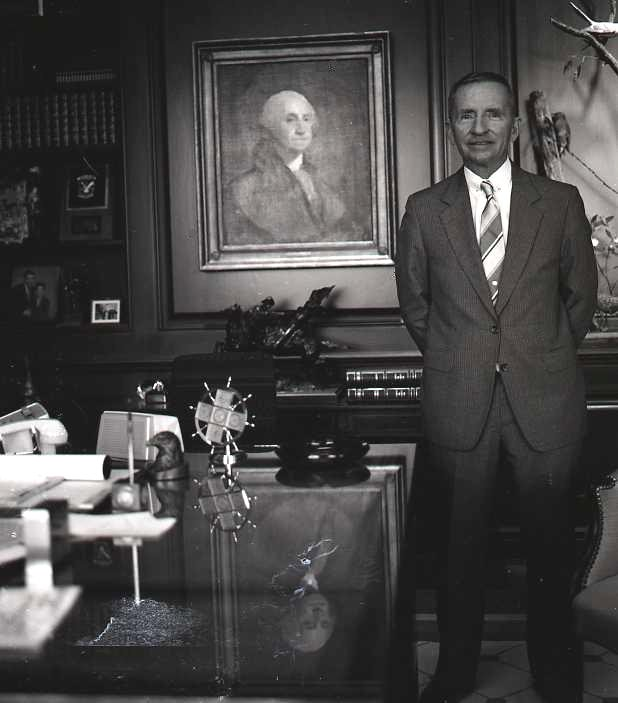 portrait of Ross Perot in his Dallas office.